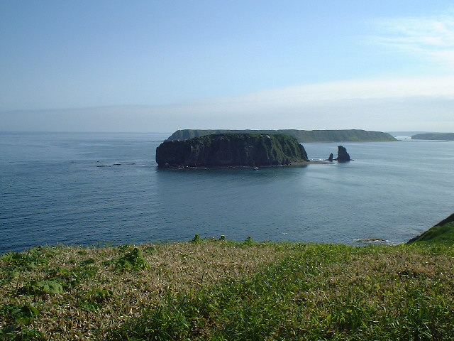 Photo of Kenbokki island.